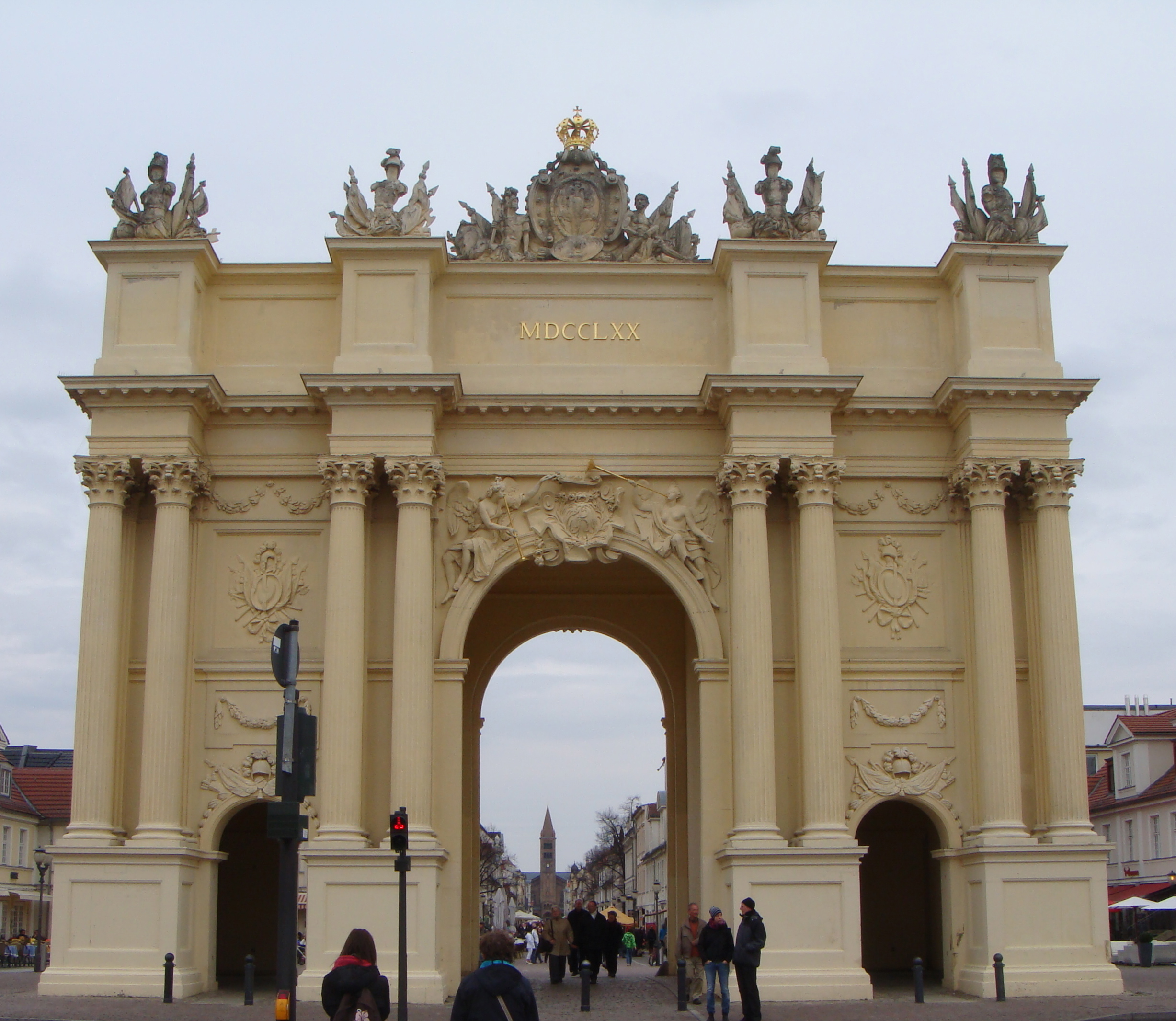 The Brandenburger Tor (Brandenburg Gate) in Potsdam, Germany, as seen from former land side (now Luisenplatz square)